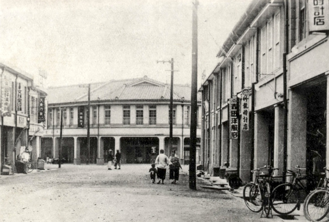 Town street of Chikutō